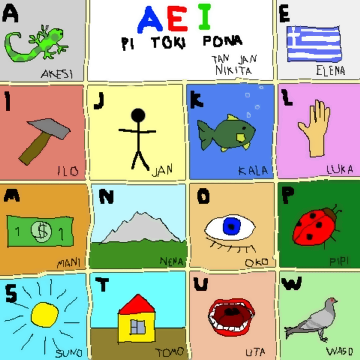 Alphabet pronunciation chart of the Toki Pona constructed language